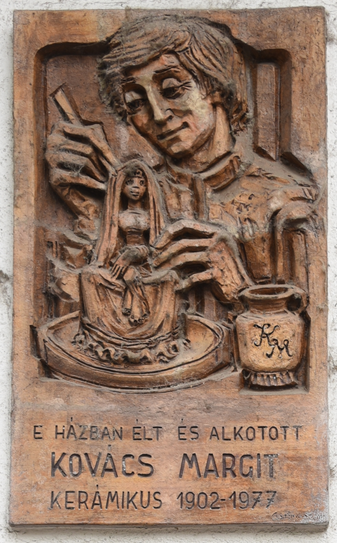 Commemorative plaque of Margit Kovács in Budapest District XIII, Pozsonyi Street No 1 (Budai Nagy Antal Street side)